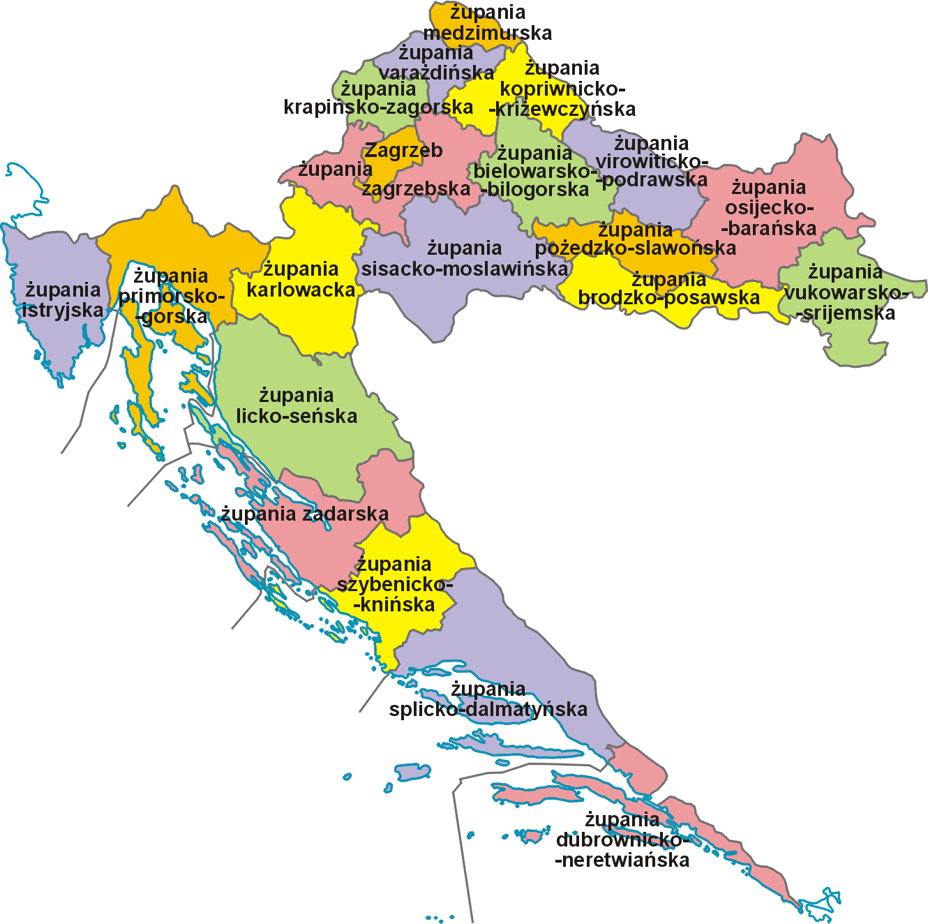 Administrative divisions of Croatia in Polish